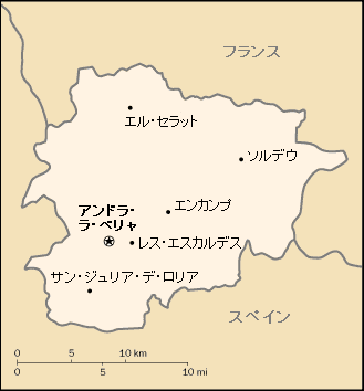 Map of Andorra from CIA World Factbook translated to Japanese.